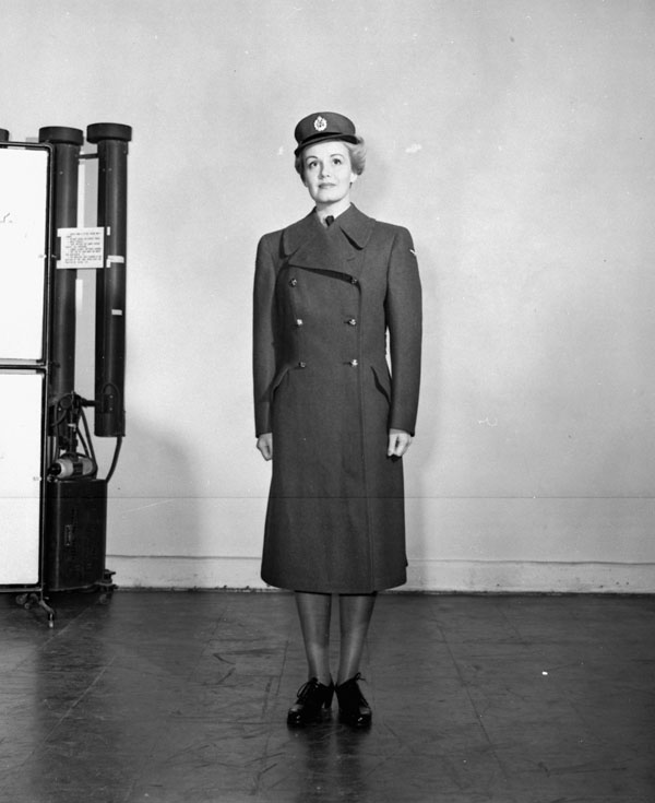 Unidentified airwoman modelling the uniform of the R.C.A.F. Women's Division, R.C.A.F. Station Rockcliffe, Ontario, Canada, 10 July 1942.